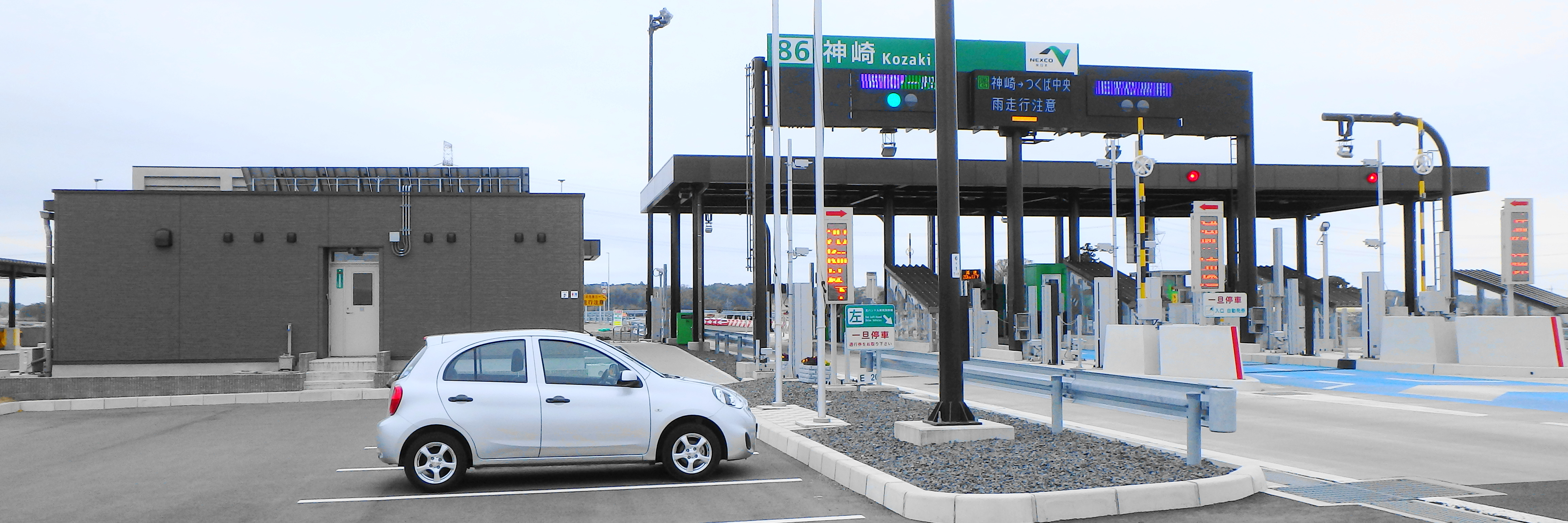 Kozaki Inter Change,Chiba prefecture,Japan